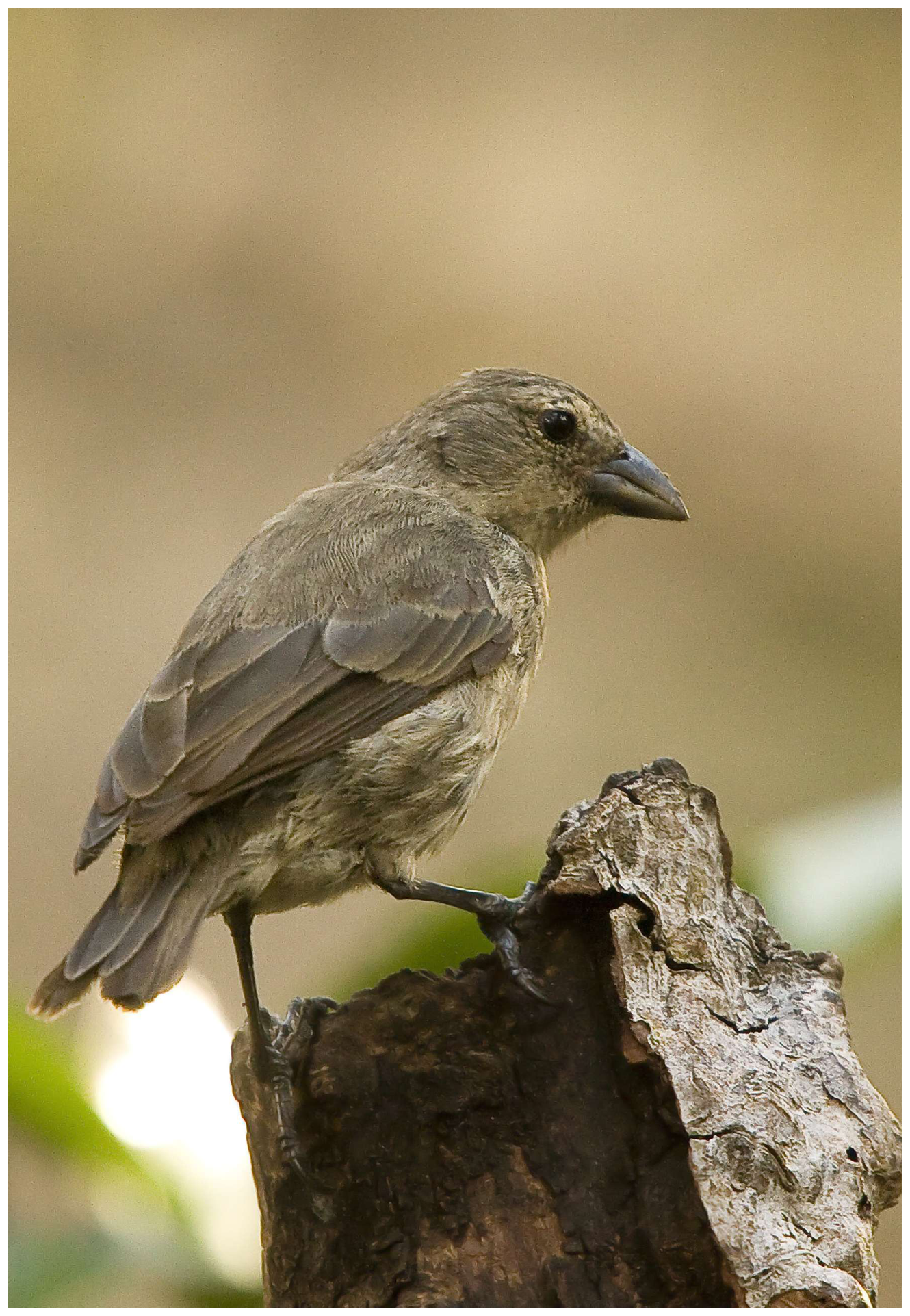 A mangrove finch, the rarest of Darwin's finches.